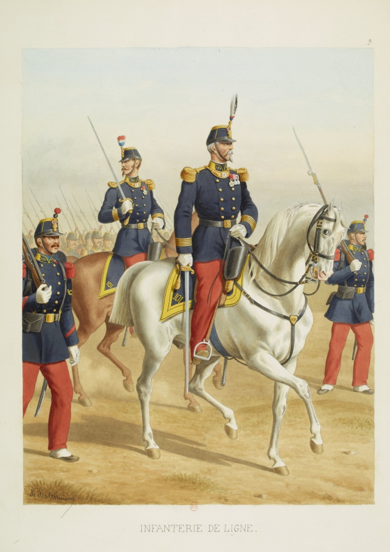 French Line infantry Second Empire